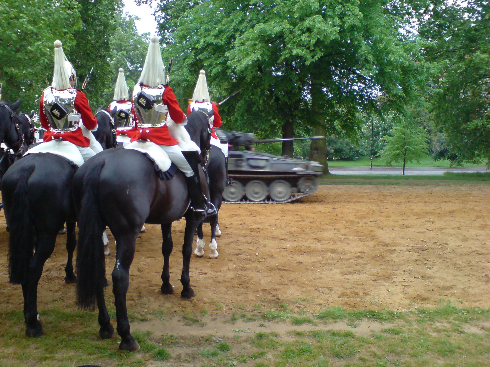 Life Guards performing ceremonial drills both on horseback and with vehicles in Hyde Park, London